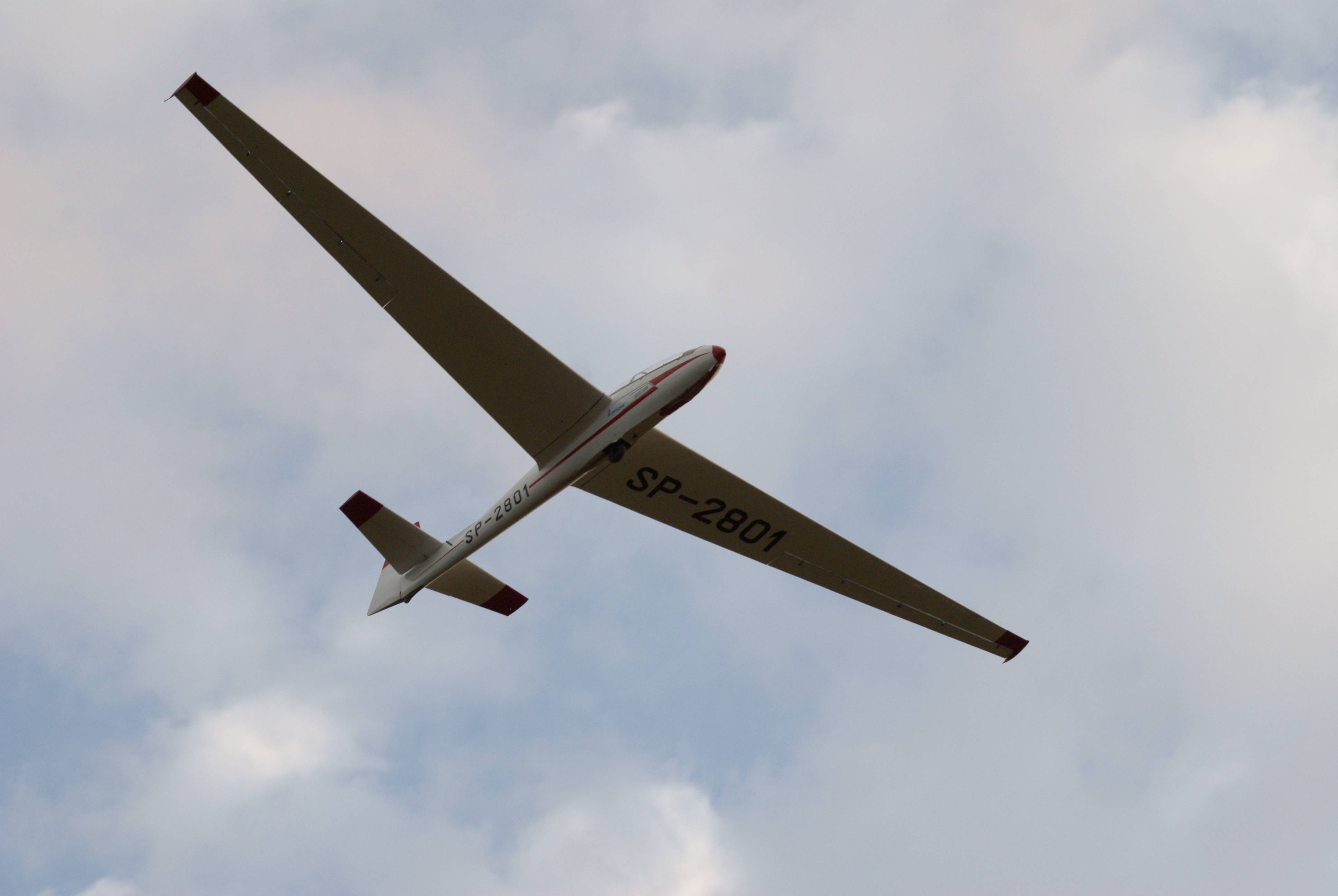 Polish wood-glider SZD-9 Bocian from Aeroklub Opolski